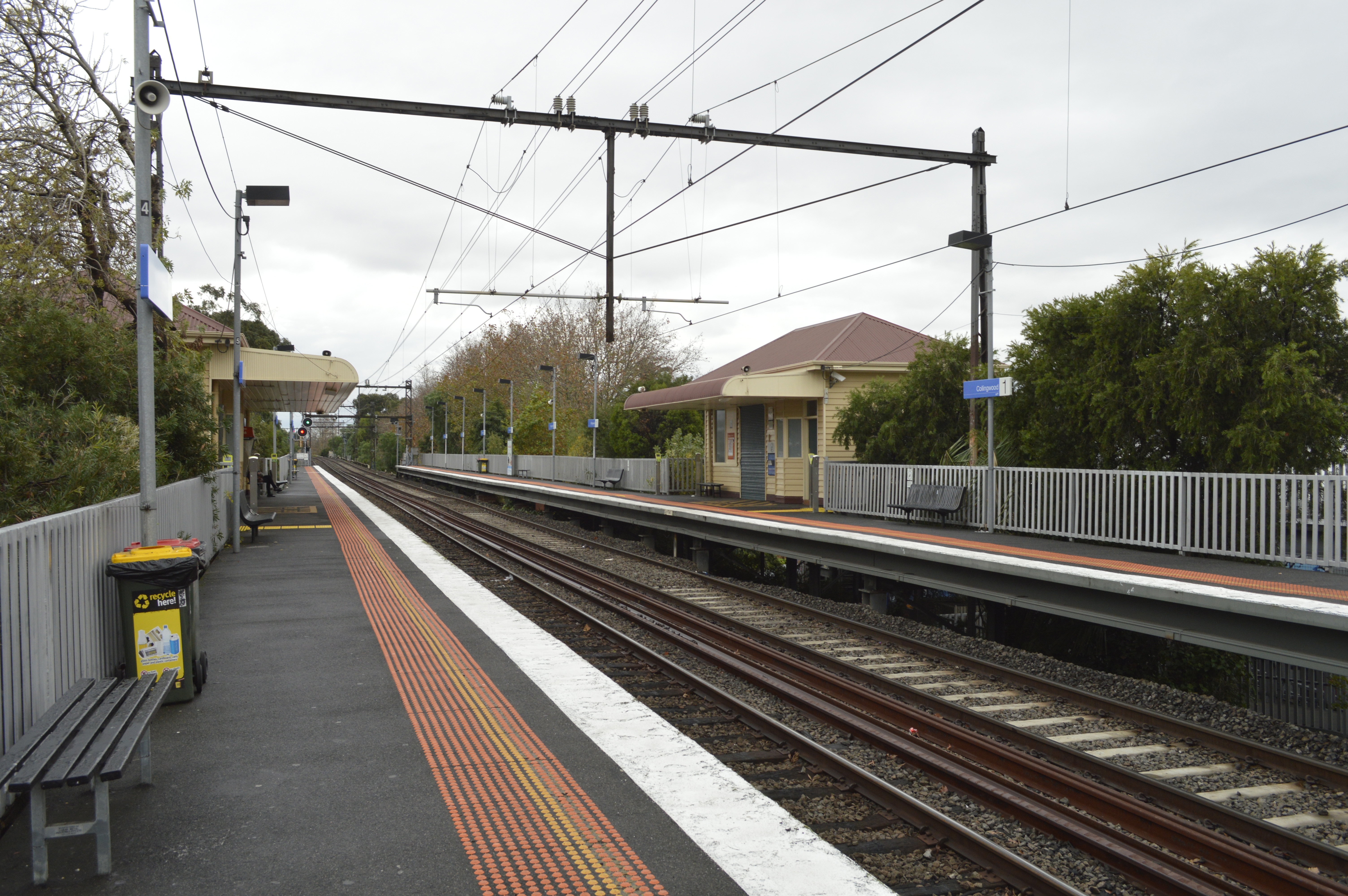 View from platform 2 looking north.